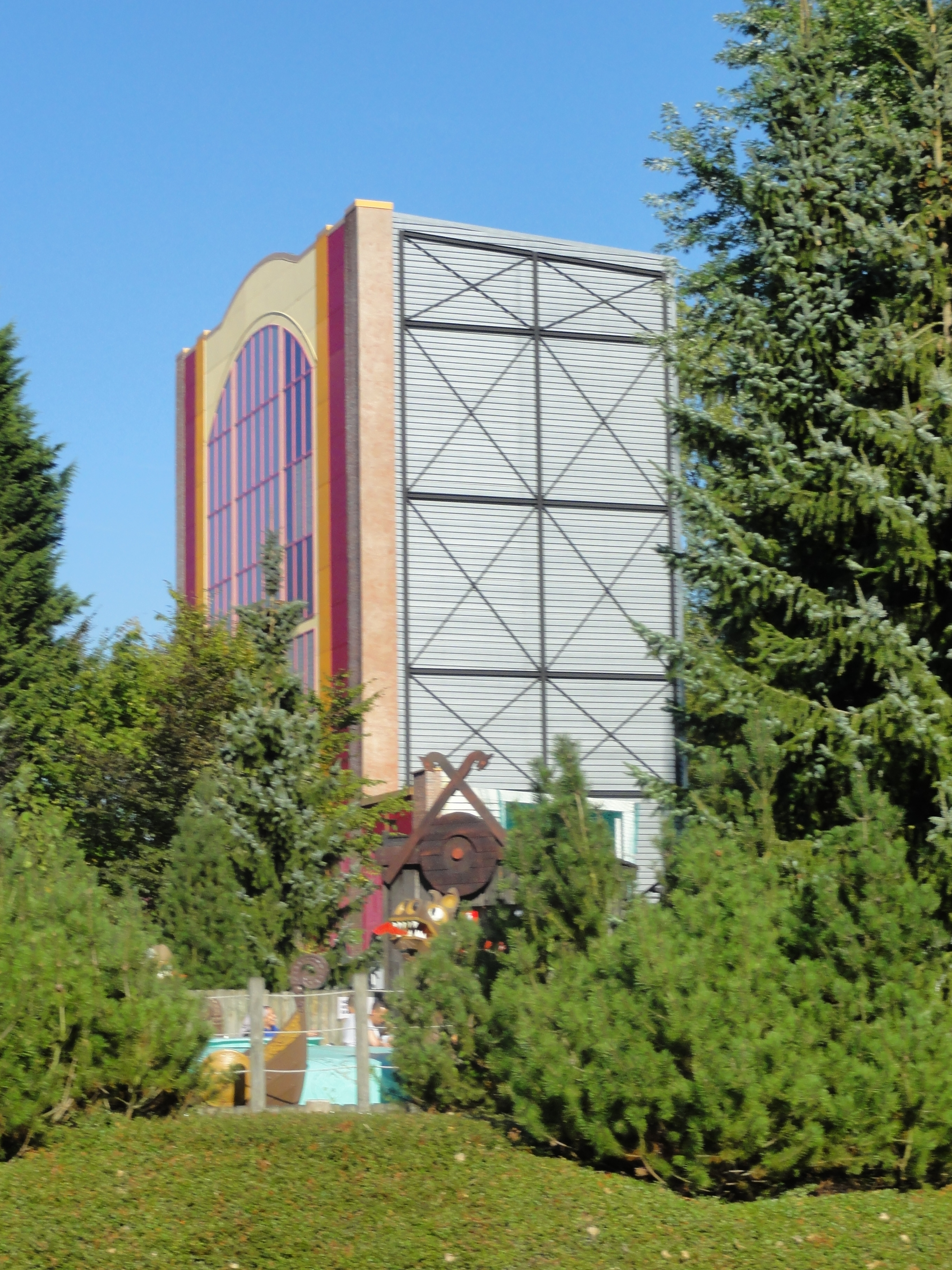 Psyké Underground, Walibi Belgium, Belgium.